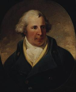 Richard Brinsley Sheridan (1751-1816)